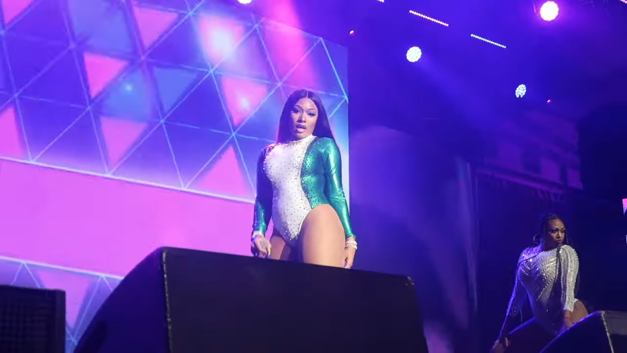 Megan Thee Stallion performing in Lagos in 2019